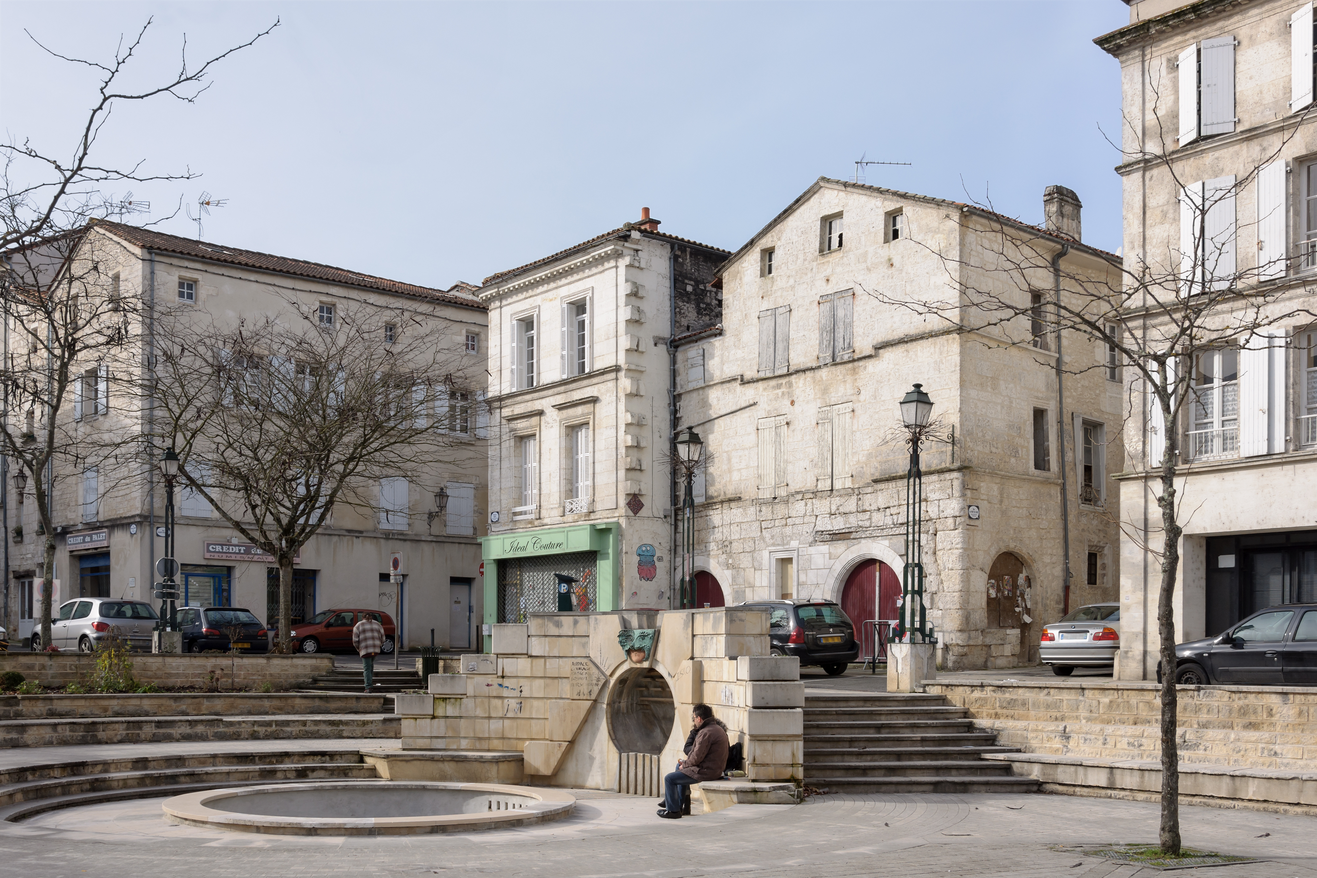 Place du Palet, a square in the old town of Angoulême, Charente, France.